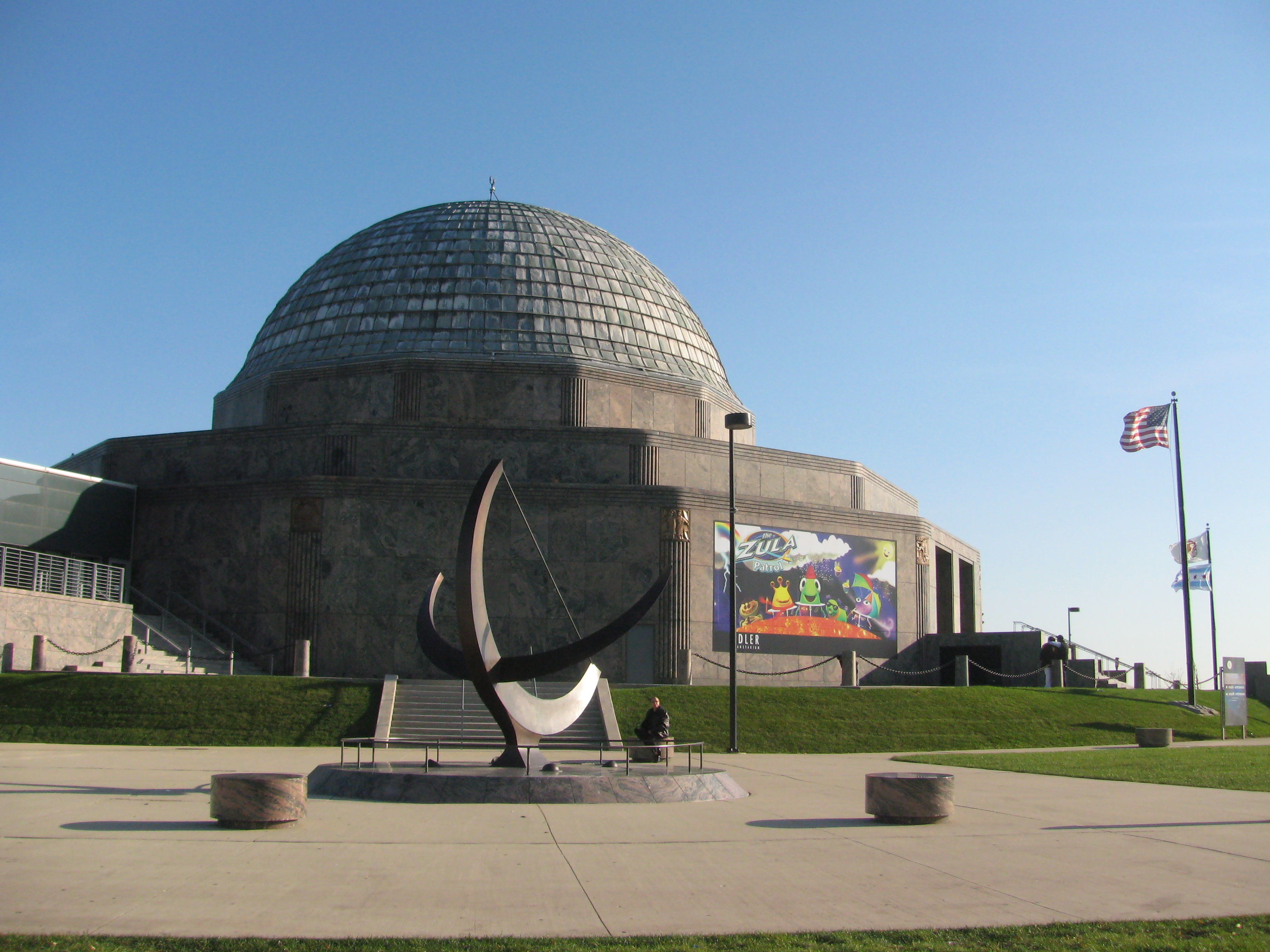 Man Enters the Cosmos by Henry Moore in front of the Adler Planetarium.